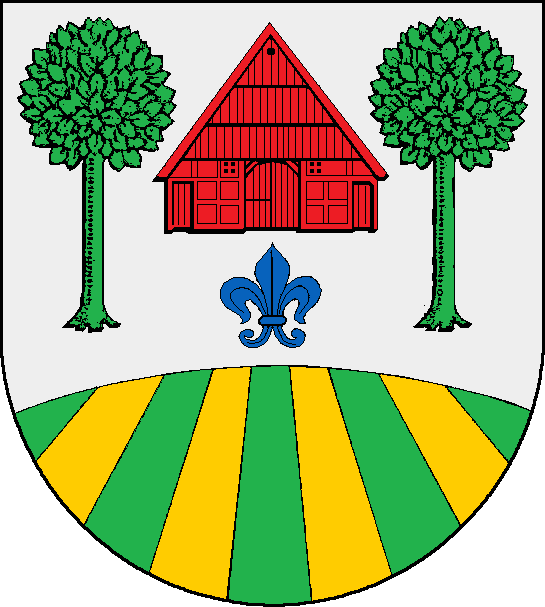 Coat of arms of the municipality Hoffeld in Schleswig-Holstein, Germany.